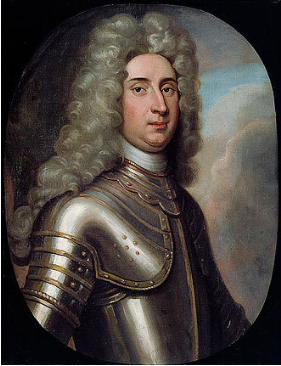 portrait of William Adrian I of Nassau-Odijk